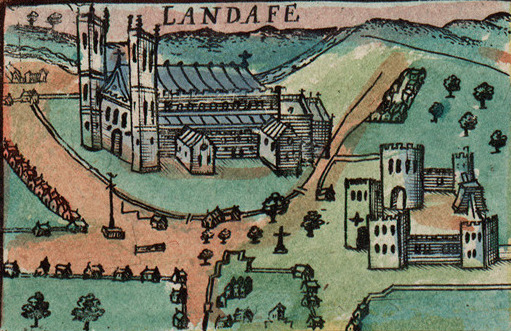 Insert from John Speeds County maps of Wales for first published in The Theatre of the Empire of Great Britain by George Humble